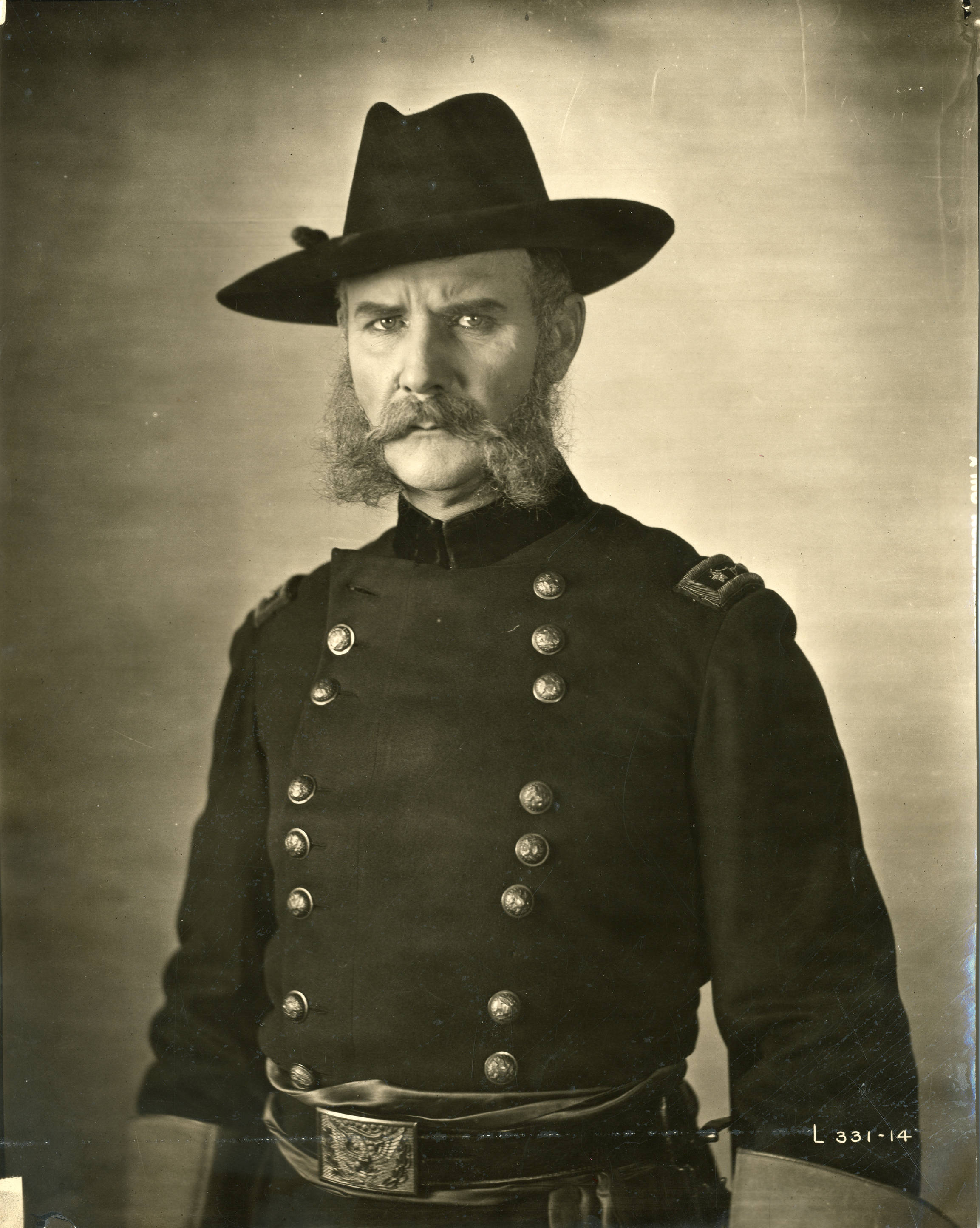 Film actor Clarence Geldart in the American drama film Held by the Enemy (1920). Subjects: actors